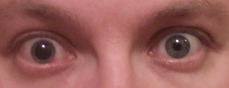 Eye treated with dilating eye drops (Atropine).